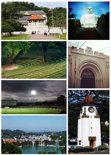 Clockwise from top-left: View of Temple of Tooth; Bahirawakanda Temple; Bogambara Prison entrance; Kandy Clock Tower; Kandy Lake; Pallekele International Stadium; Sarachchandra open-air theatre